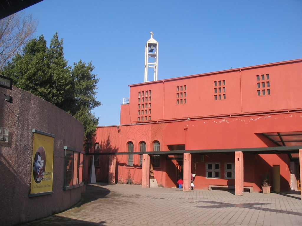 It builds of Architect Cristián Undurraga. Founded in 1995 after the beatification of the Father Hurtado. It consists of a route ritual that goes from the Pardon's Chapel (where it was the tomb of Father), to the Sanctuary Chapel and the Tomb. It is located at 1090 on avenue General Velásquez, in Estación Central sector, Santiago.